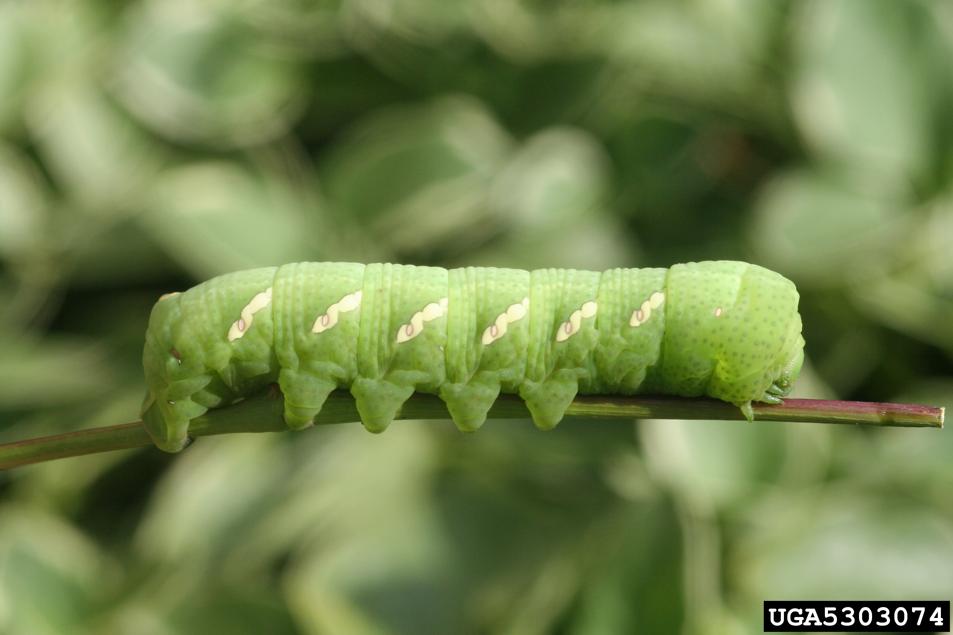 Eumorpha achemon, larva